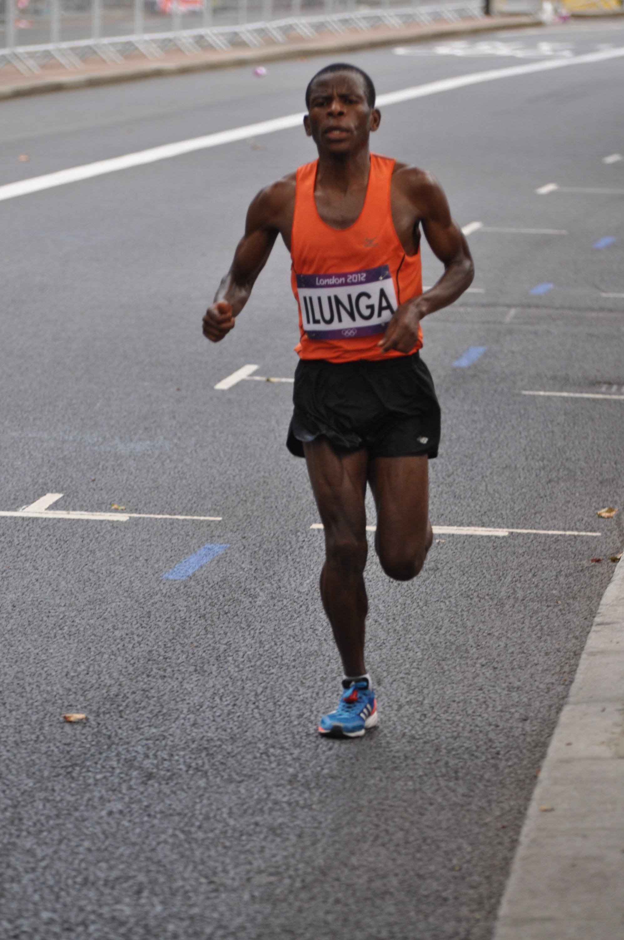 The men's marathon of the 2012 Summer Olympics in London, UK took place on an Olympic marathon street course on Sunday 12th August 2012 at 11:00. This was the final day of the 30th Olympic Games. The London 2012 marathon course is the standard Olympic distance of 26 miles 385 yards and consists of one short lap of approx 2.2 miles followed by three longer laps of 8 miles. The course began on The Mall and travelled past several of the most famous London landmarks. The start/finish line was near the Victoria Memorial. These photographs were taken at the Victoria Embankment. This featured several times on the looped course. The approximate location from the photographs is shown in the Google StreetView Link below. Stephen Kiprotich won in 2 hours, 8 minutes, 1 second as he pulled away from the Kenyan duo of Abel Kirui and Wilson Kiprotich Kipsang. These photographs are unofficial photographs. They are not endorsed by London 2012. There are not commercially available. They are available for use under a Creative Commons License. Please link back to the photograph on my Flickr account if you use the image.